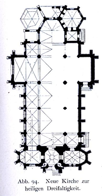 Kirche Heilige Dreifaltigkeit an der Jülicher Straße in Düsseldorf-Derendorf, 1892 bis 1893, Architekt Caspar Clemens Pickel, Grundriss.jpg